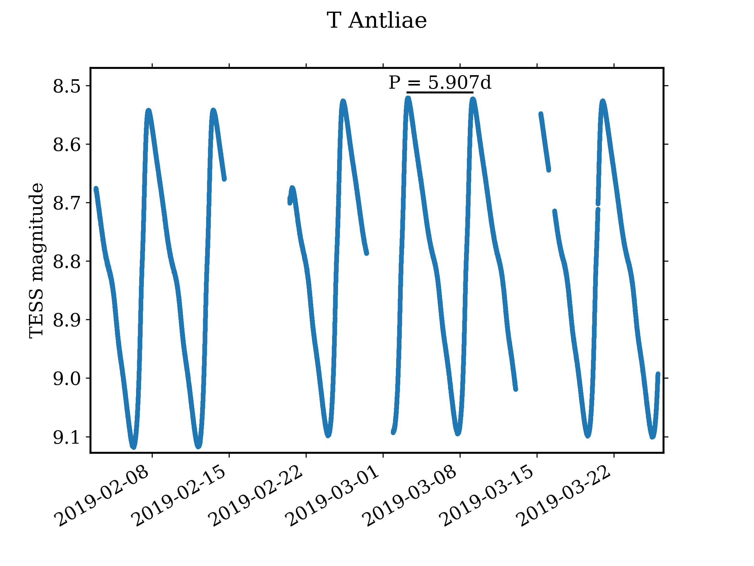 Lightcurve of the classical Cepheid variable T Antliae recorded by NASA's Transiting Exoplanet Survey Satellite (TESS).